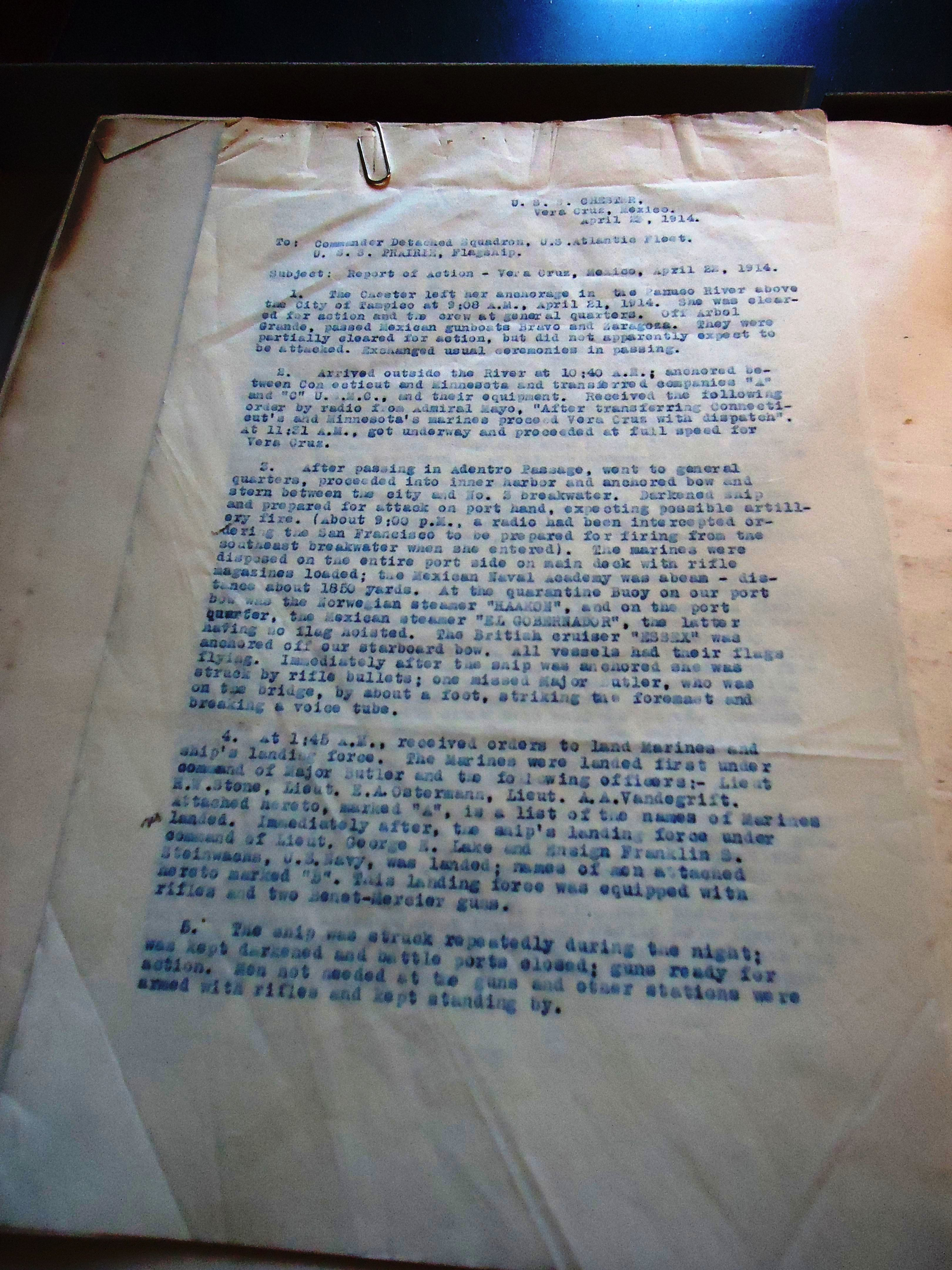 Report of Action, USS Chester, Vera Cruz April 21-22, 1914.